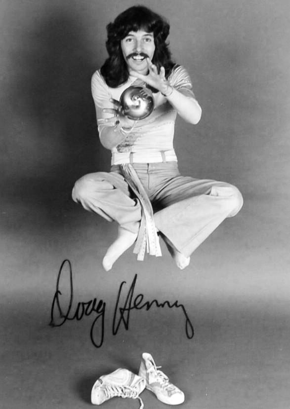 Autographed promotional photo of magician Doug Henning for his 1976 television special.